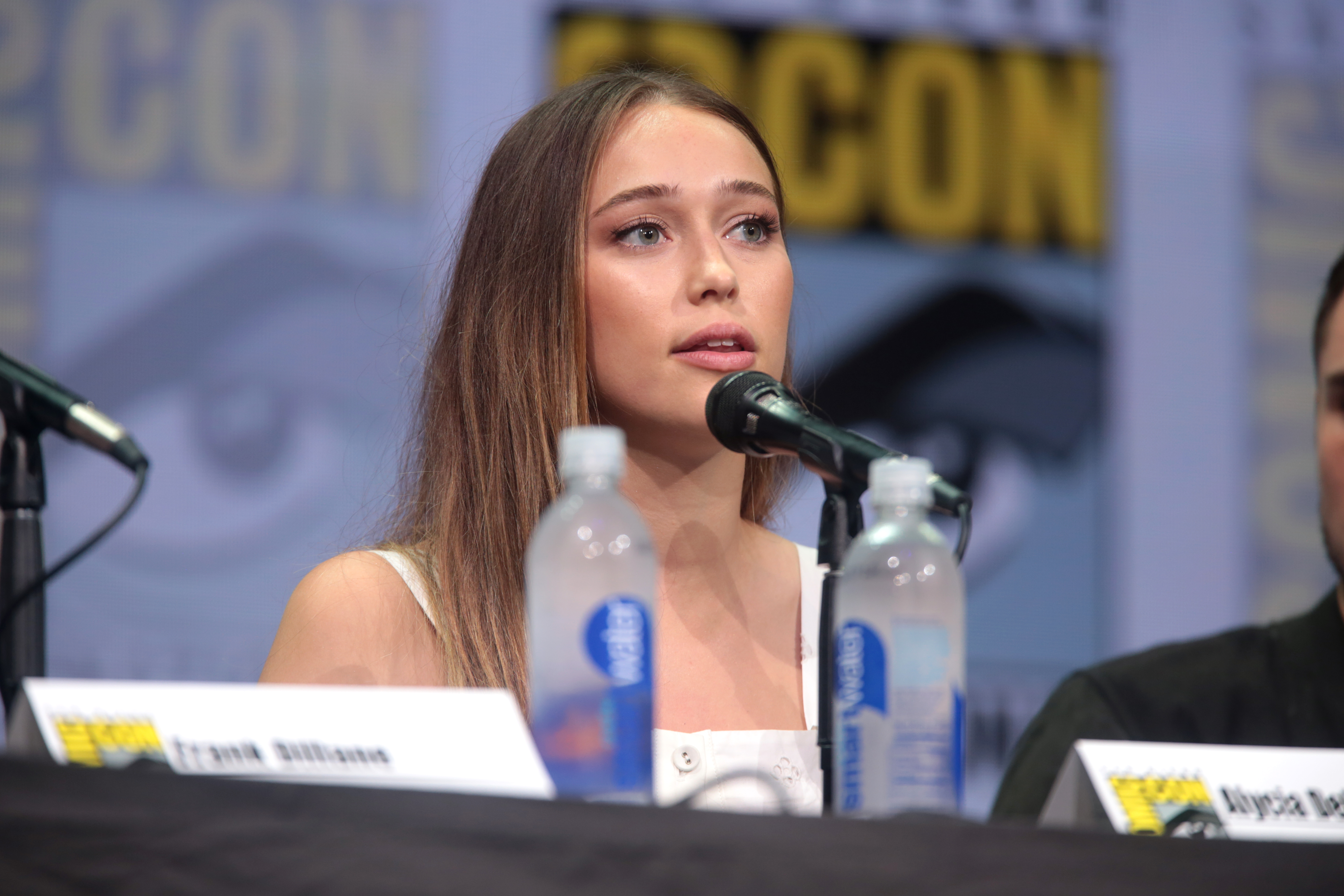 Alycia Debnam-Carey speaking at the 2017 San Diego Comic Con International, for "Fear the Walking Dead", at the San Diego Convention Center in San Diego, California.